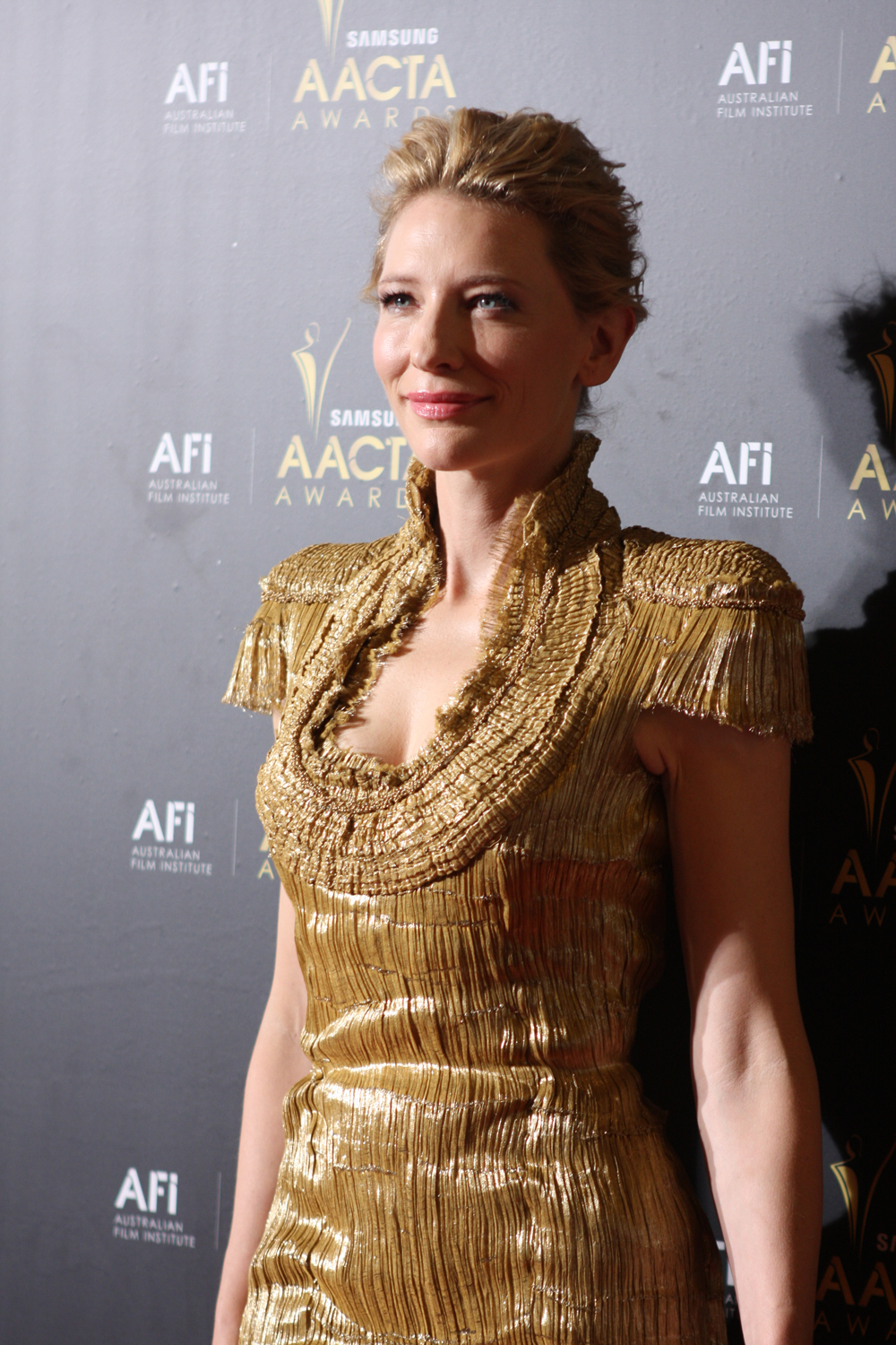 Cate Blanchett at the AACTA Awards 2012 in Sydney, Australia